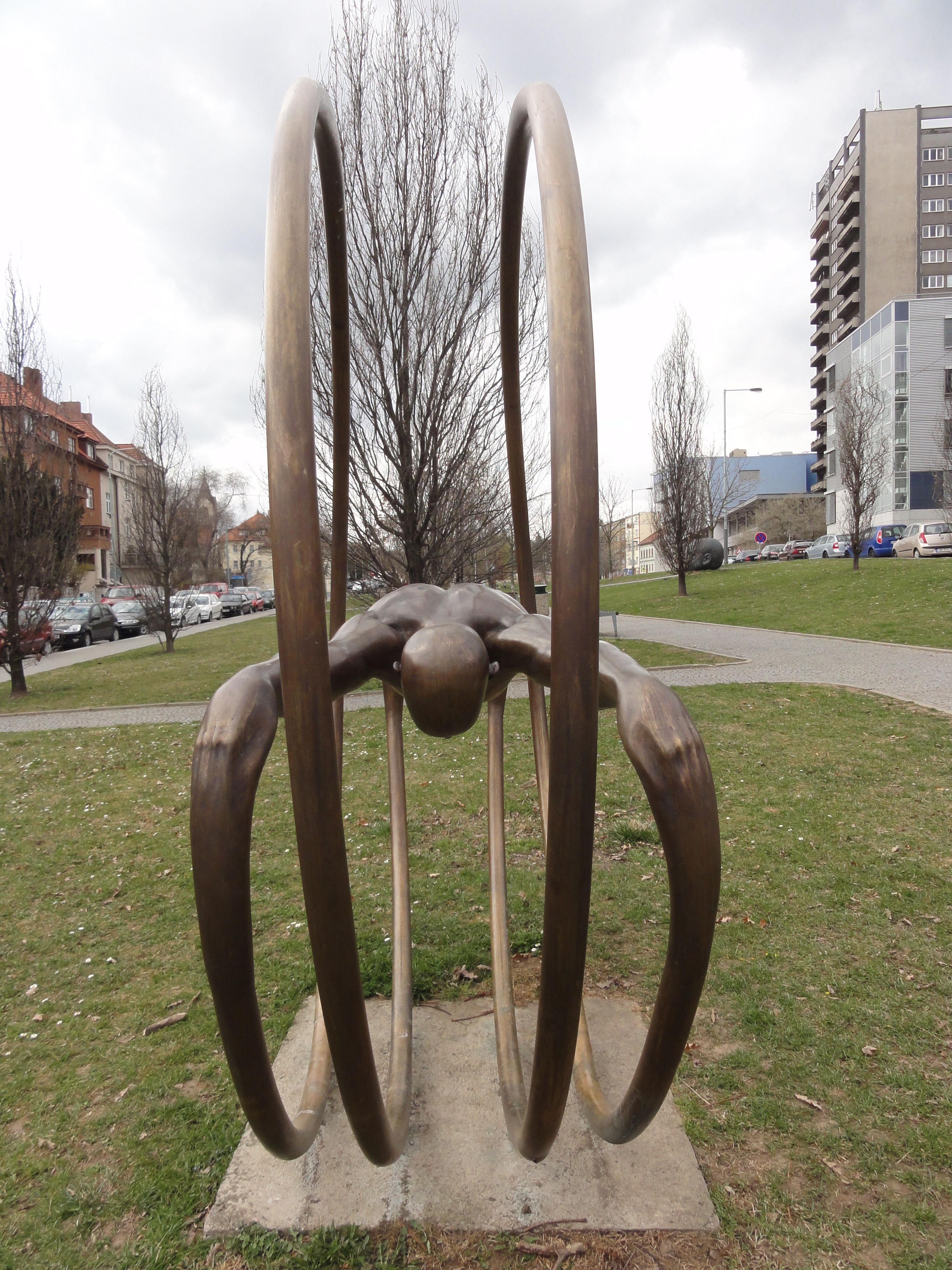 Hadovka Park, Prague